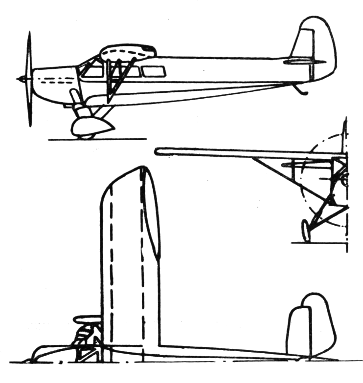 Focke Wulf A.43 3 view from l'Aerophile magazine January 1933